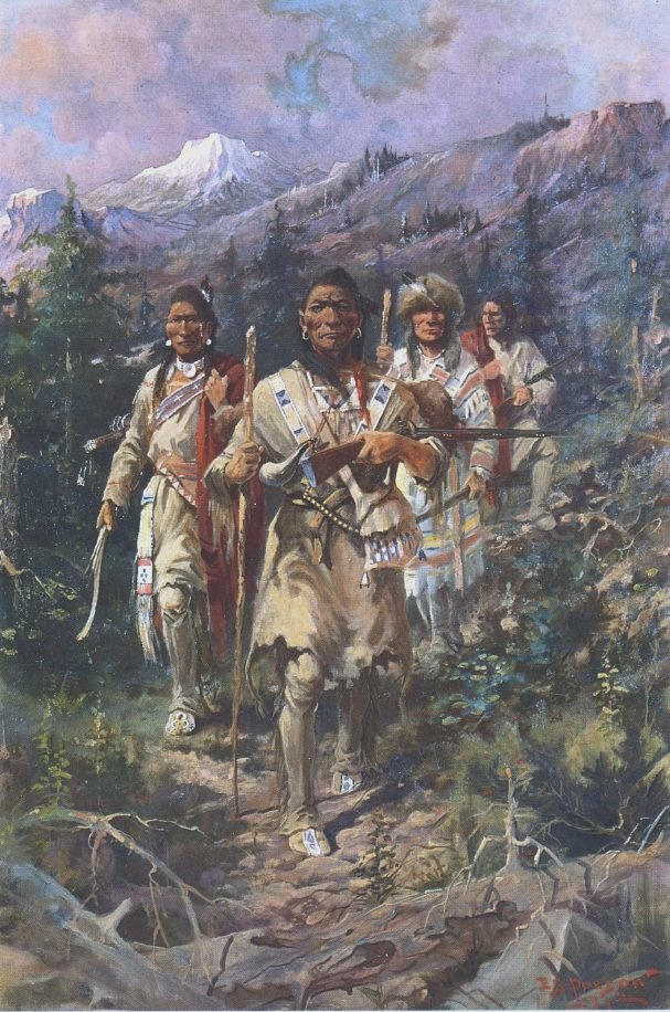 "After the Whiteman's Book" by Edgar Samuel Paxson, mural in lobby of Montana House of Representatives